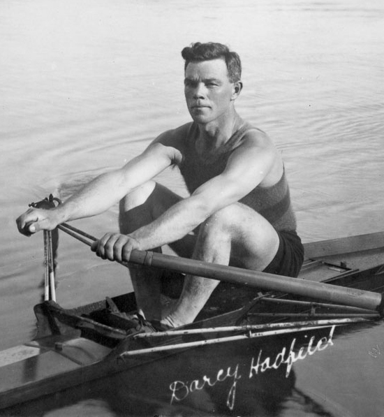 Darcy Hadfield in a single scull, about 1920.